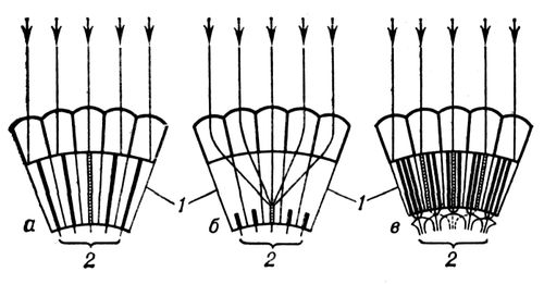 Compound eye